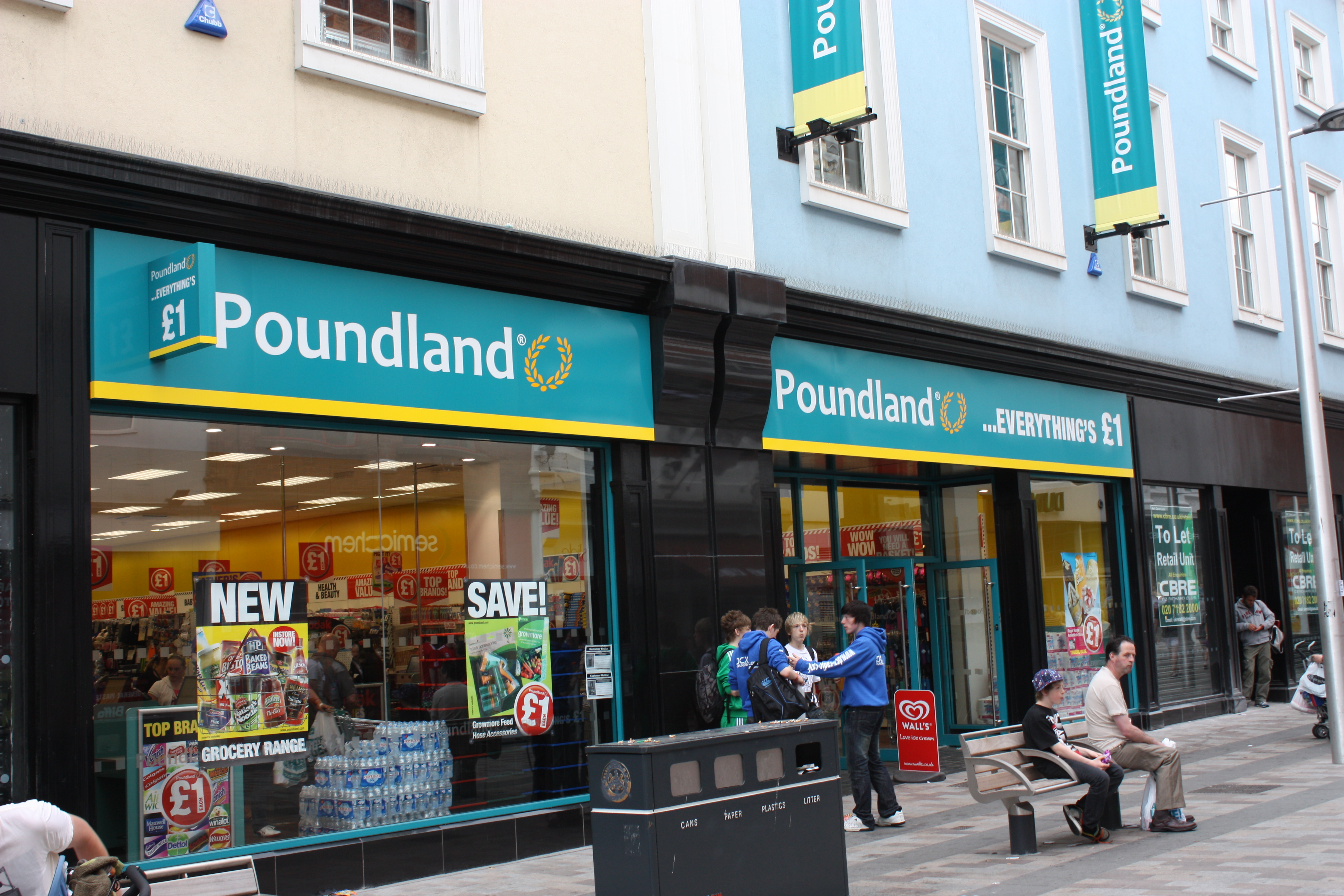 Poundland, Ann Street, Belfast, Northern Ireland, June 2010